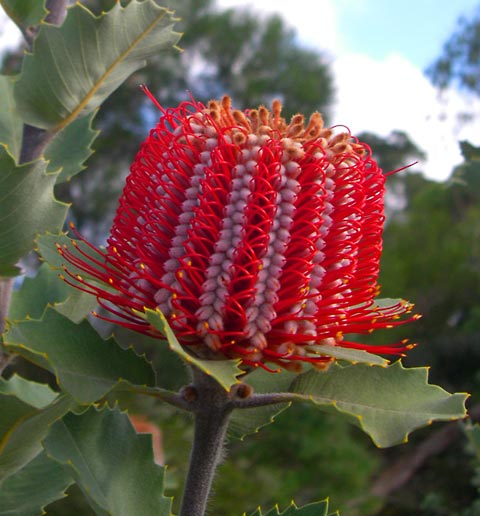 Banksia coccinea flower. Banksia Farm, WA.